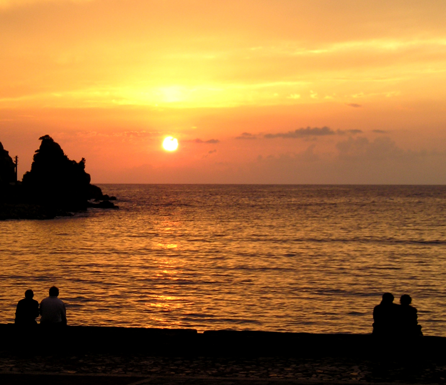 Sunset in Amasra. Photo by Eylem Dal.